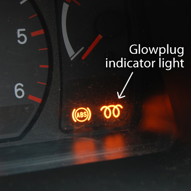 Photograph of a glowplug indicator light from a 1998 Mitsubishi Challenger. Taken by me on 15th December 2007 using a Nikon D40 camera.